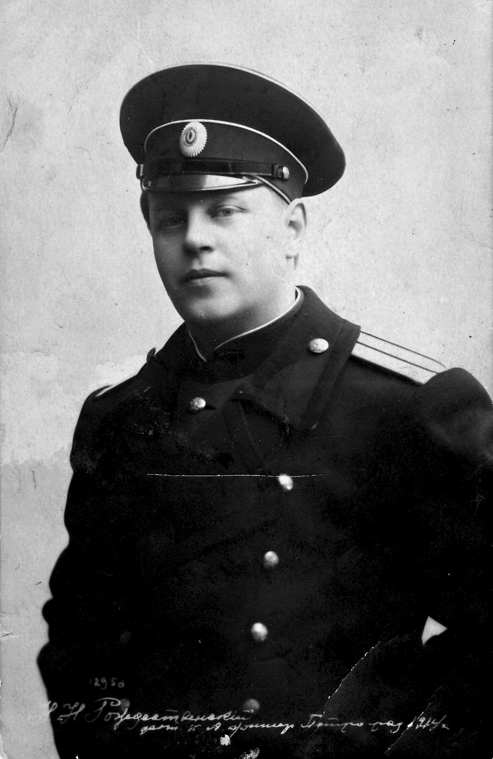 Nikolay Nikolaevich Rozhdestvensky (1883-1935), father of Zoya Rozhdestvenskaya.